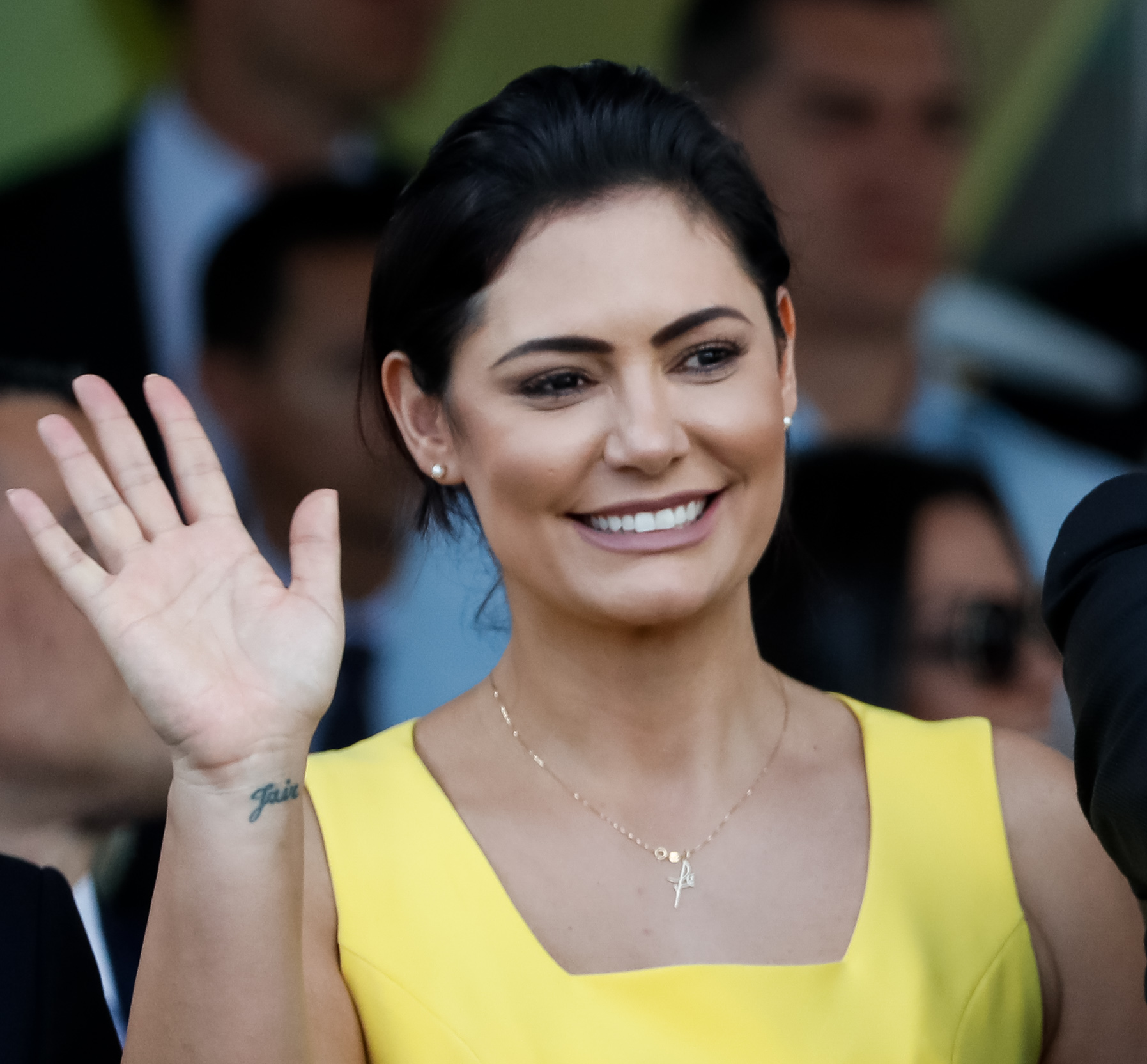 (Brasília - DF, 07/09/2019) Presidente da República, Jair Bolsonaro, durante desfile Cívico por ocasião do Dia da Pátria Foto: Alan Santos/PR